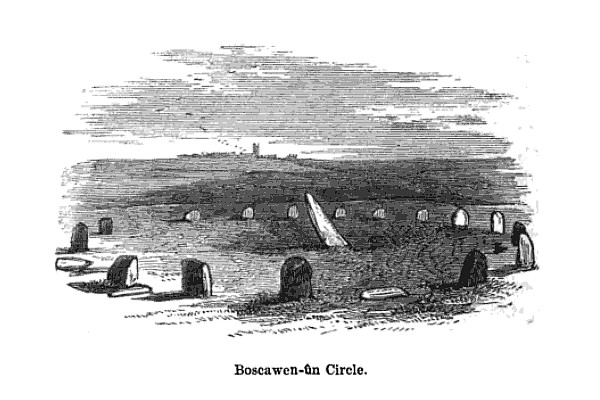 Churches of West Cornwall with Notes of the Antiquities of the District - Boscawen-Un